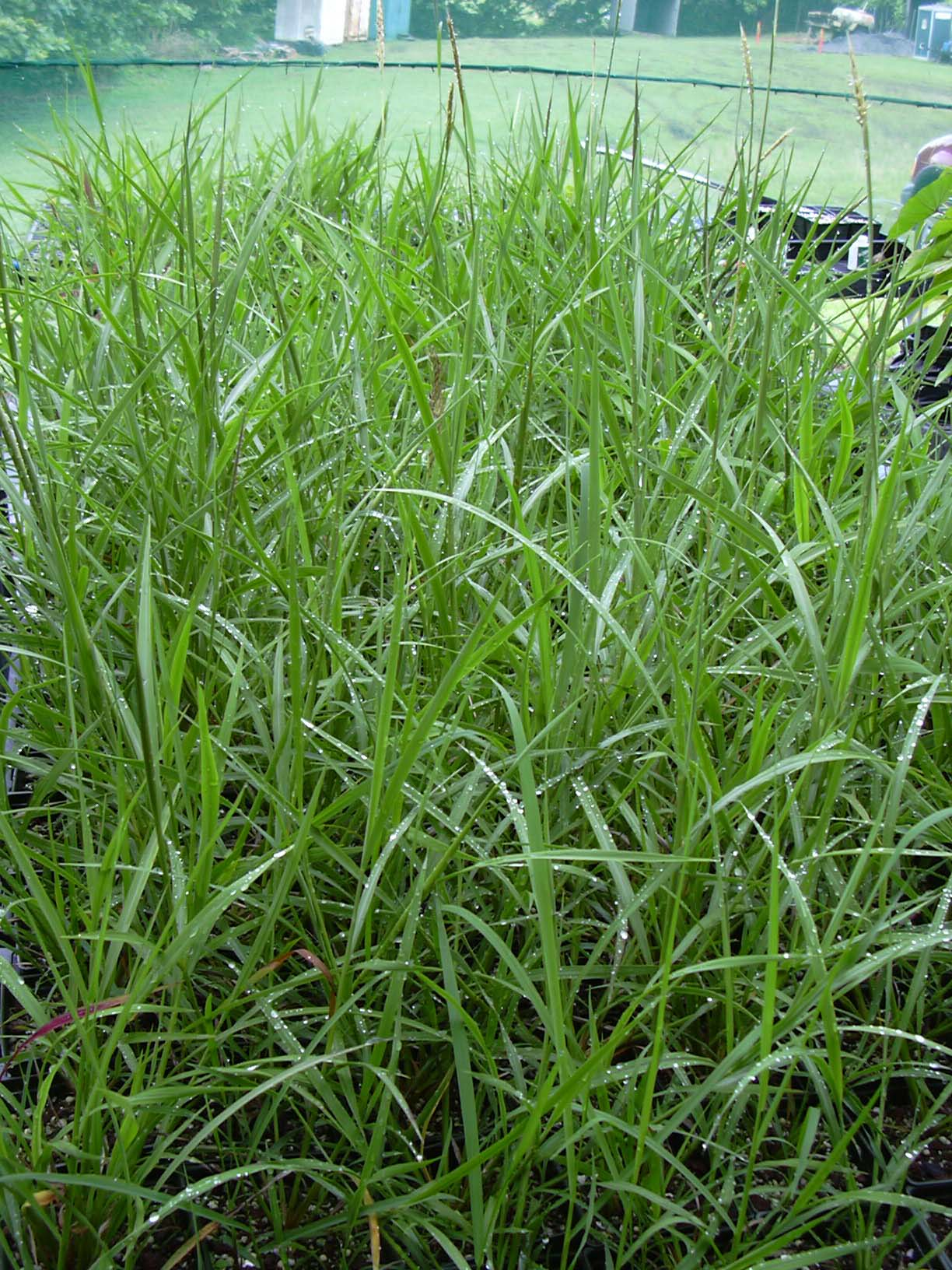 Ischaemum byrone (view greenhouse). Location: Maui, Kiphahulu Haleakala National Park